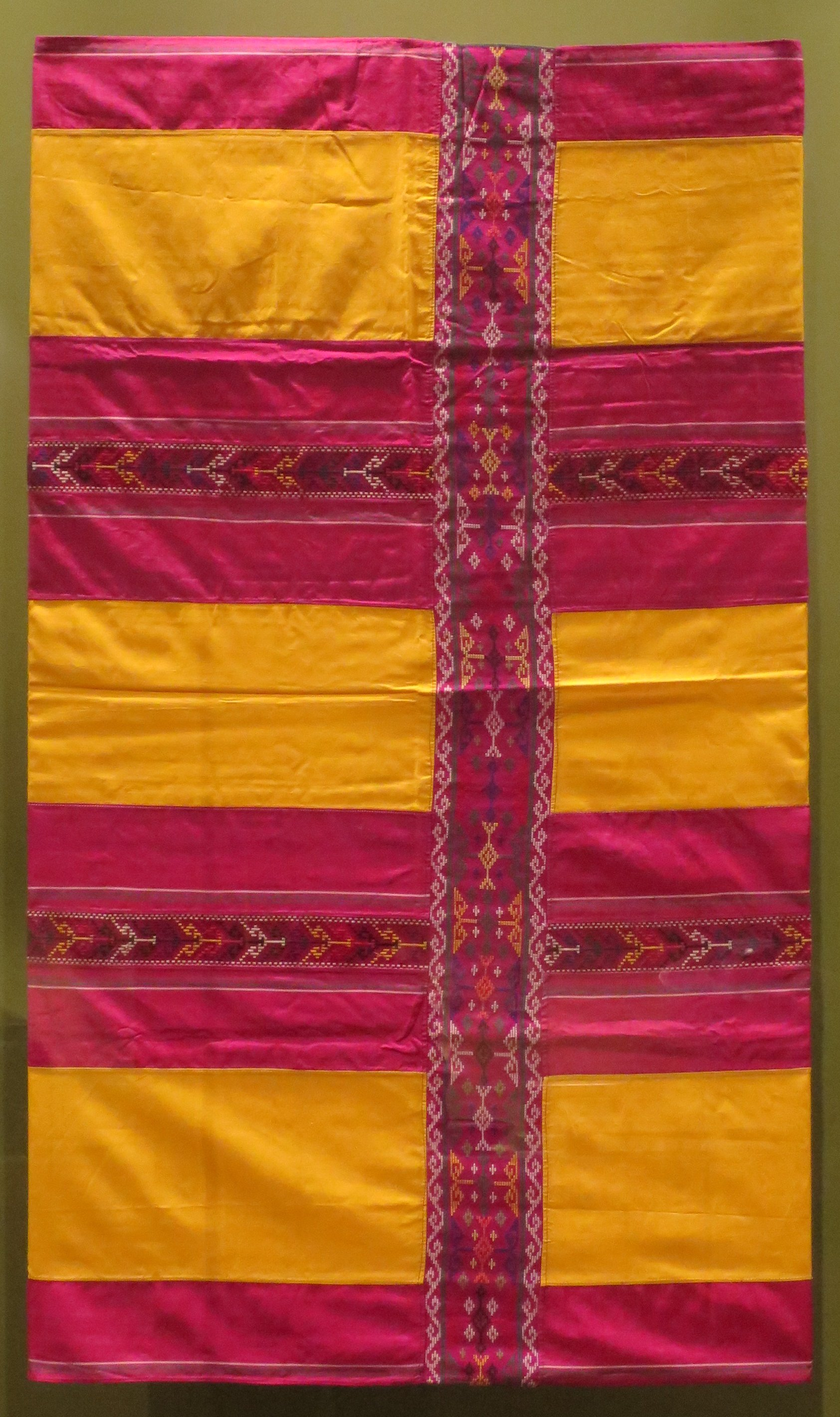 Malong (tube skirt) from Maranao, Mindanao, the Philippines, mid-20th century, rayon, plain weave, supplementary weft weave, Honolulu Museum of Art, accession 14180.1